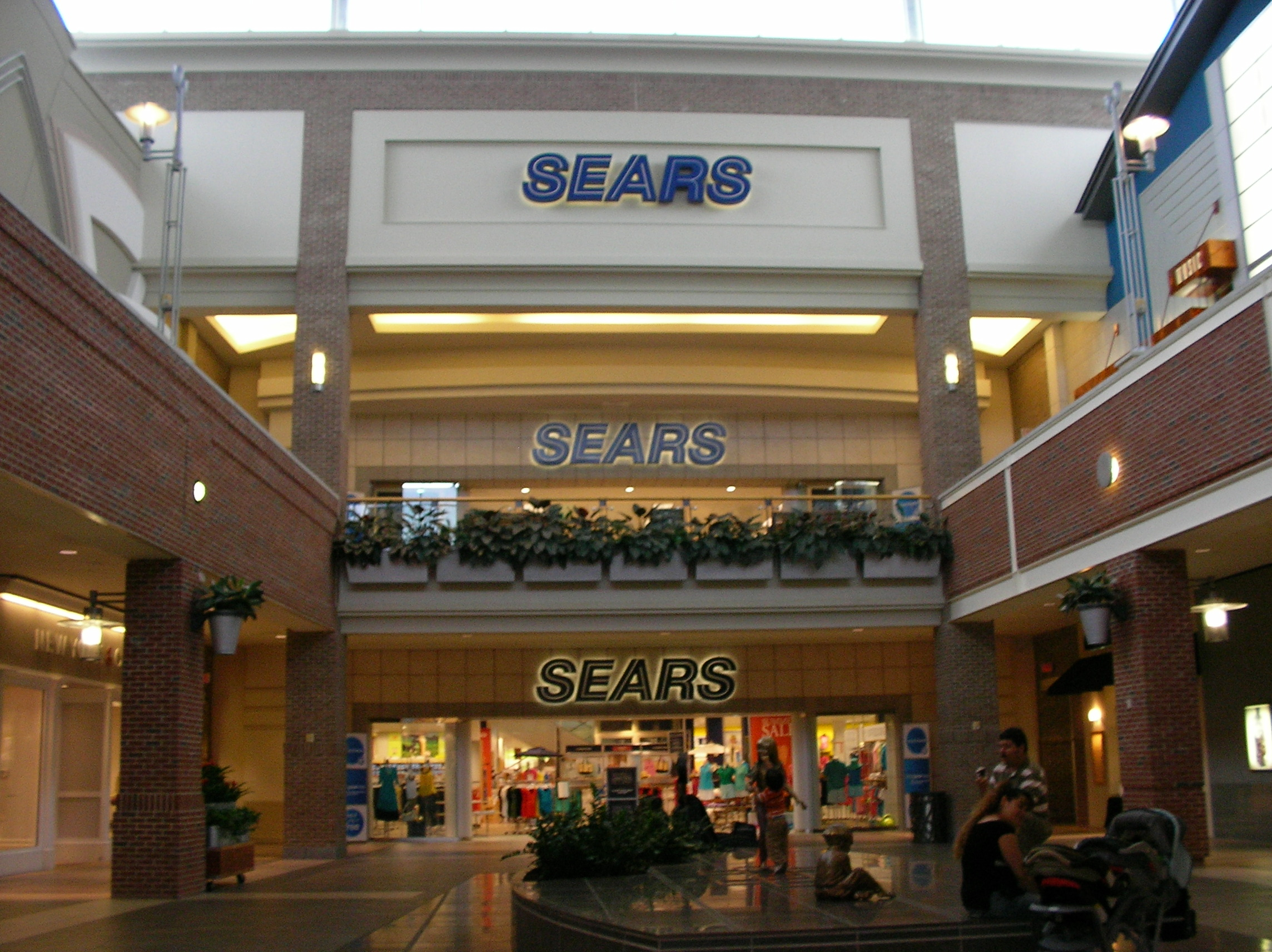 Sears in Southpoint Mall